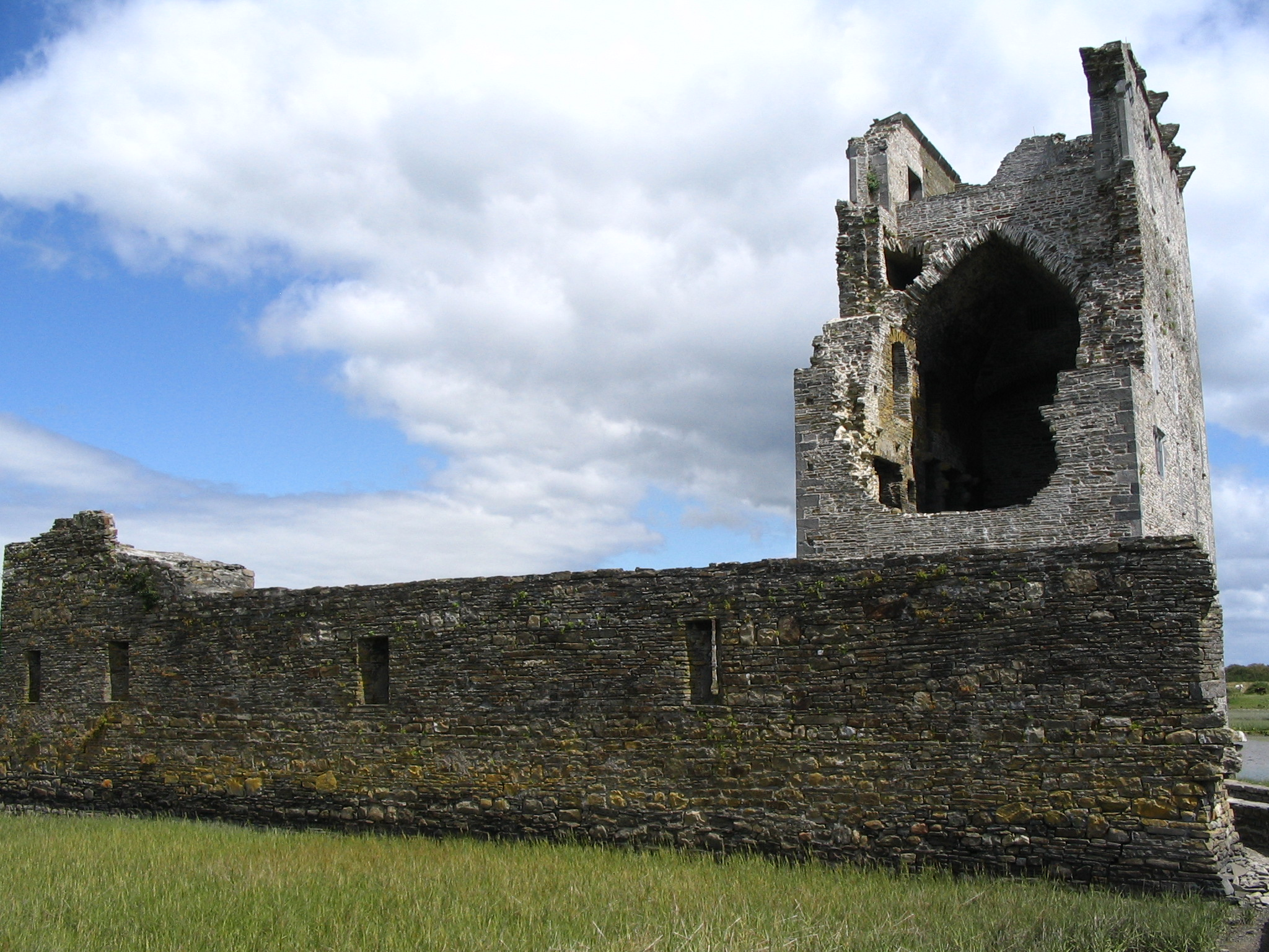 Carrigafoyle Castle